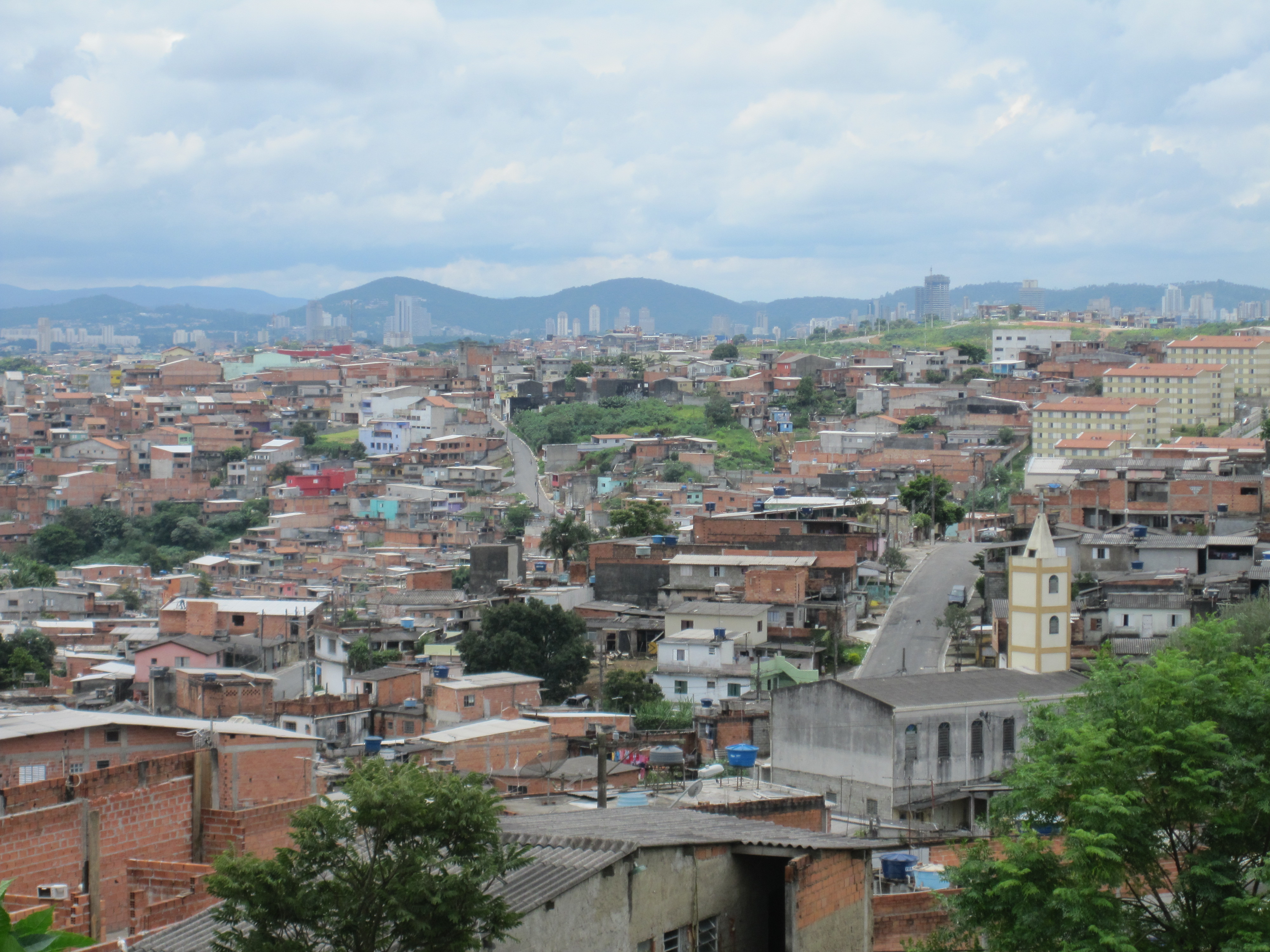 View of Carapicuíba, with Barueri skyline and Serra da Cantareira range on the background.